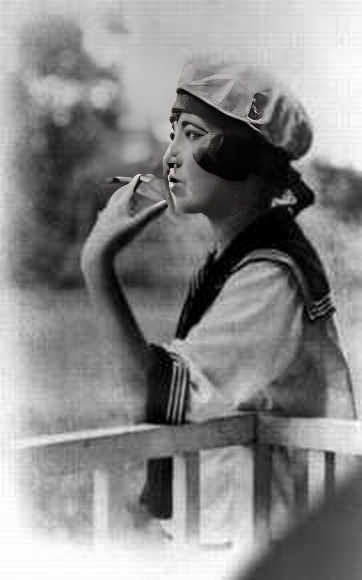 Moga